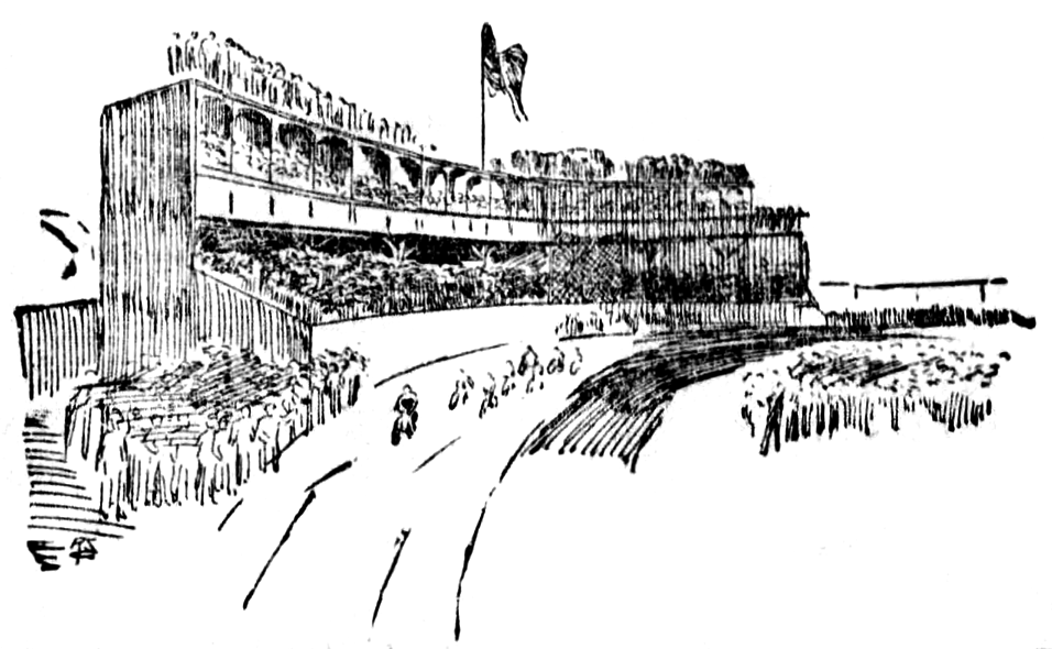 1894 Pittsburg Press sketch of Recreation Park in what is now Pittsburgh. The accompanying article can be viewed at Google News Archive. The grandstand was dismantled the following year (see "Baseball Chatter", The Pittsburg Post, 15 Sep 1895, p. 6).